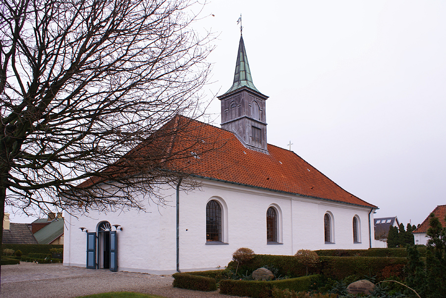 Hornbæk Church in Helsingør (Elsinore) Kommune, 12 km northwest of Elsinore, Denmark